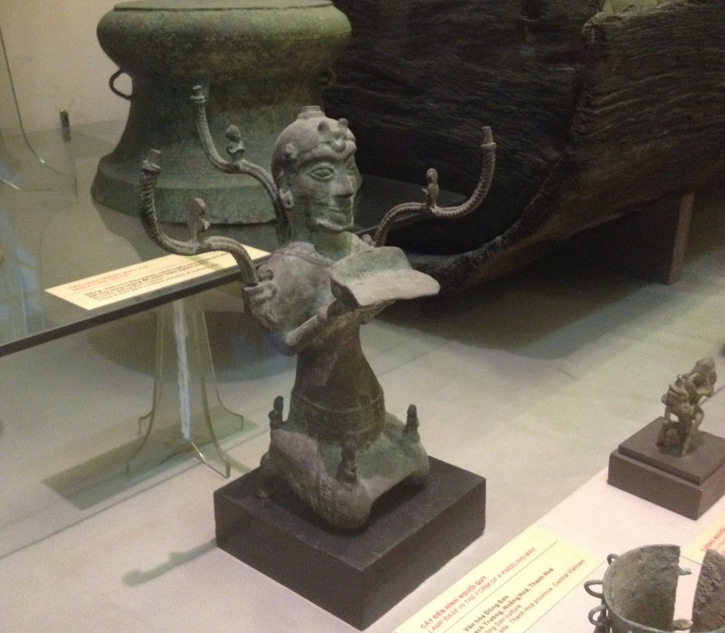 Bronze lamp base in the form of a kneeling man - National treasure of Vietnam.